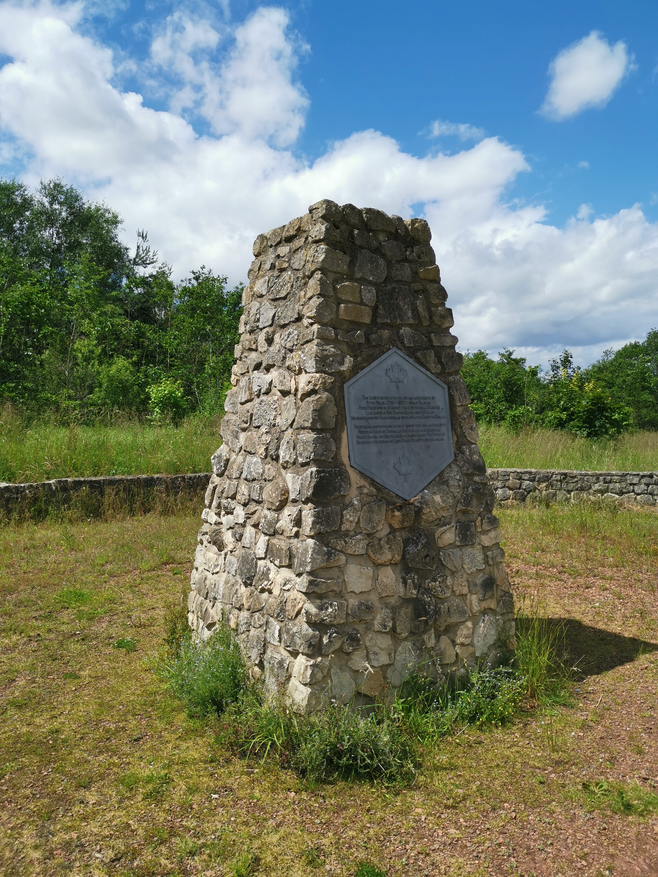 A monument erected in memory of Peter Fidler.